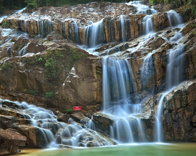 The View Of Sungai Pandan Waterfall